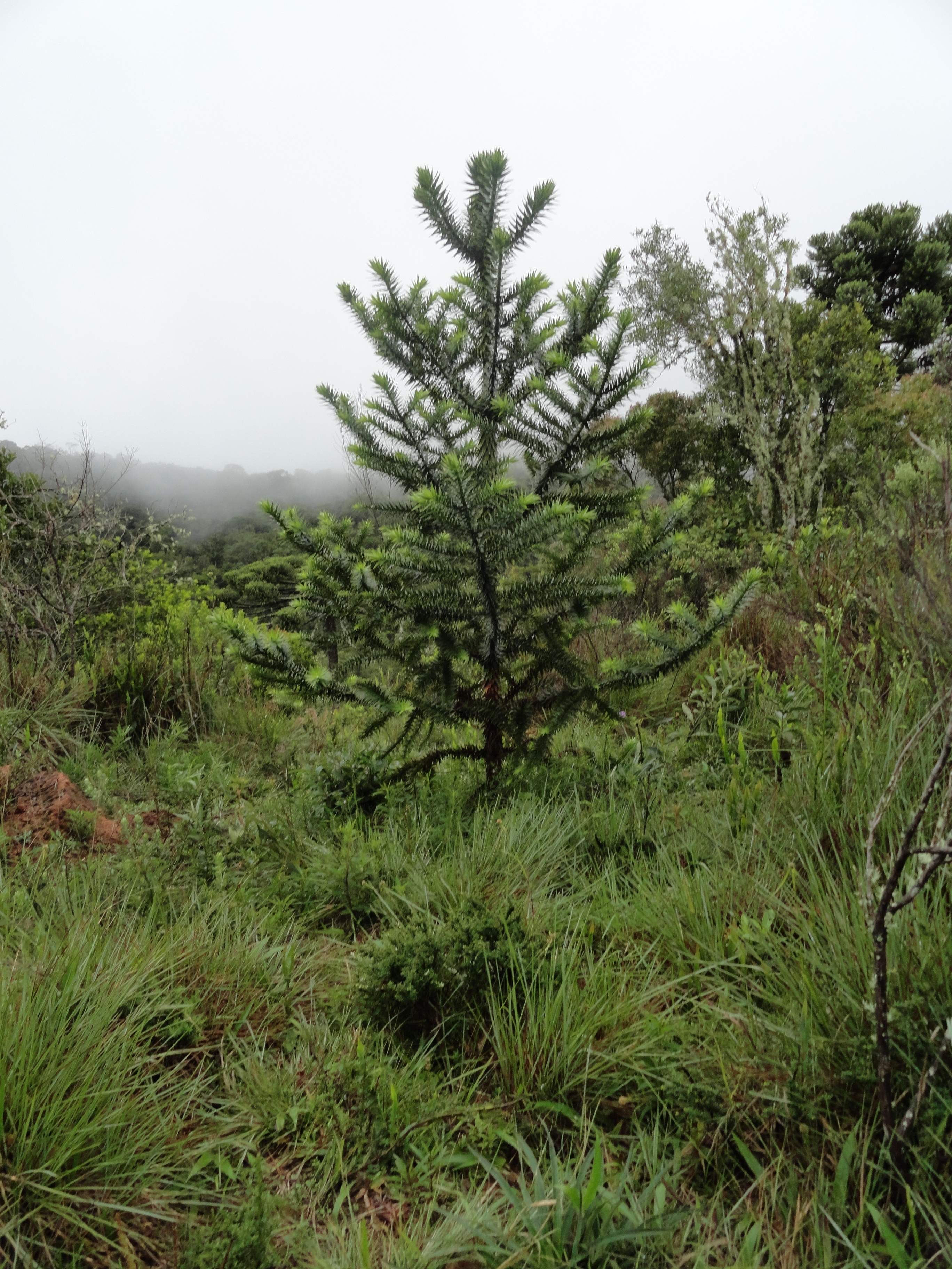 Young Araucaria angustifolia (Brazilian Araucaria), in Campos do Jordão, state of São Paulo, southeastern Brazil.